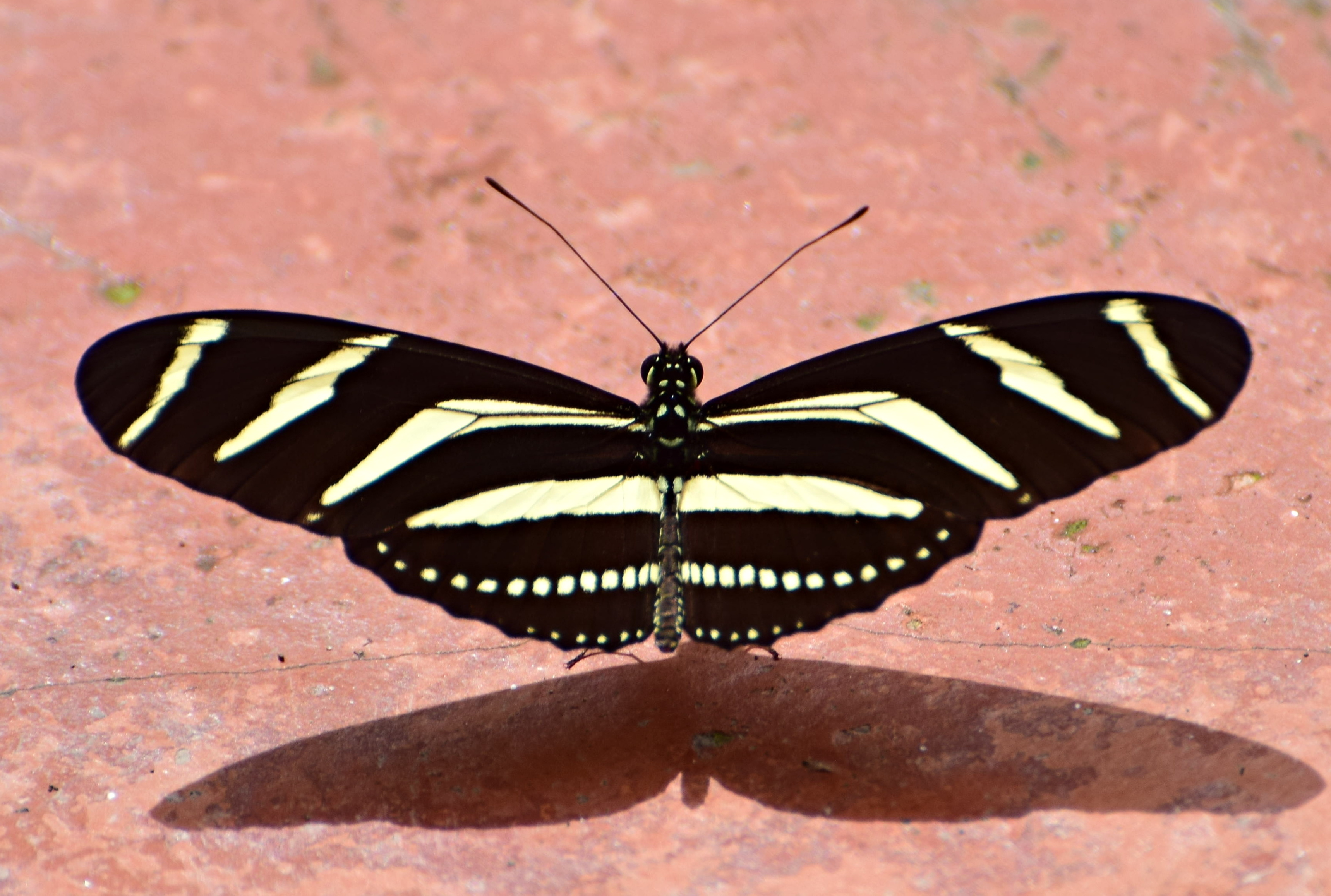 Heliconius charithonia (Nymphalidae)